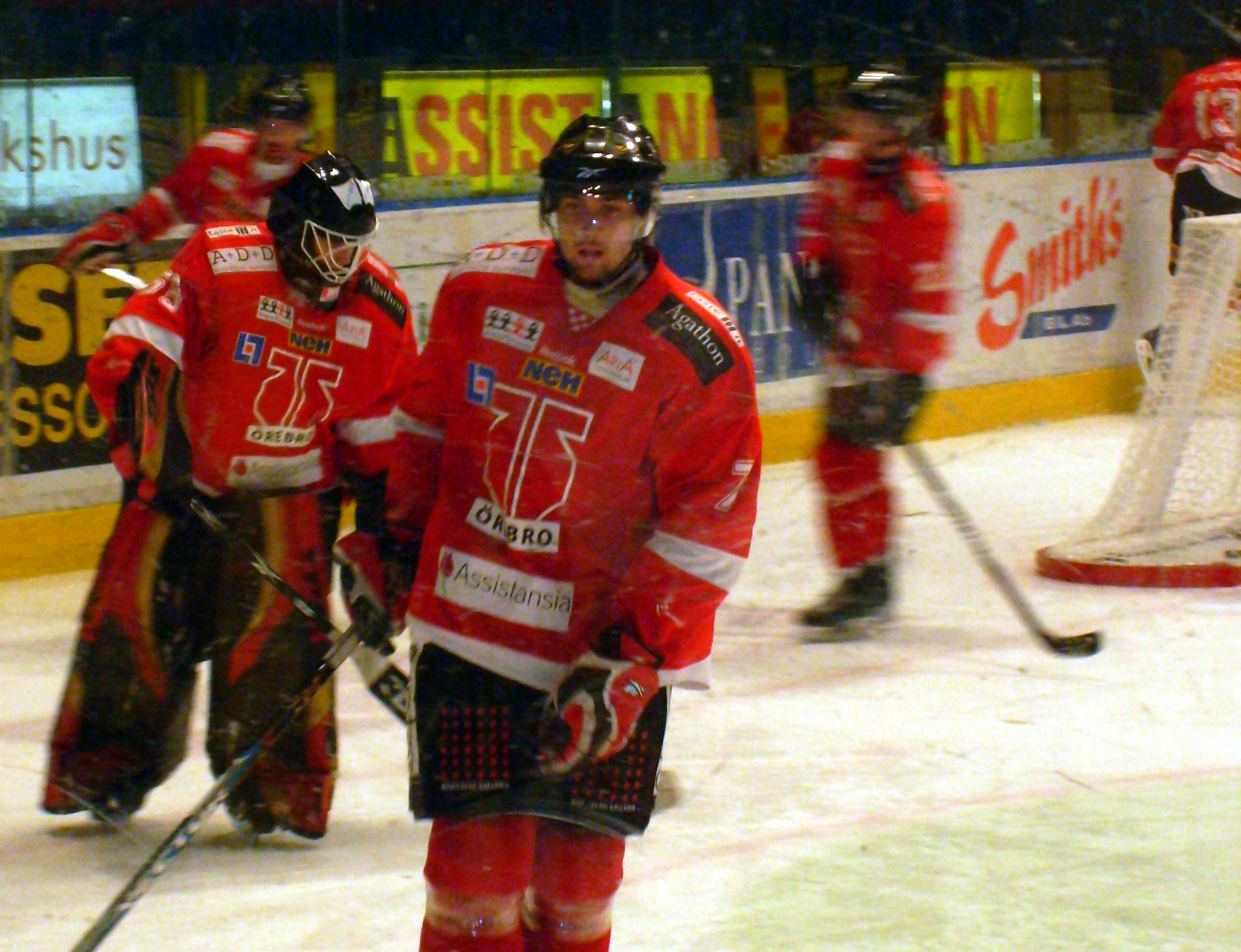 Ice hockey players from Örebro HK.